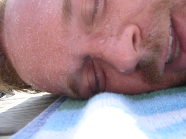 sweating